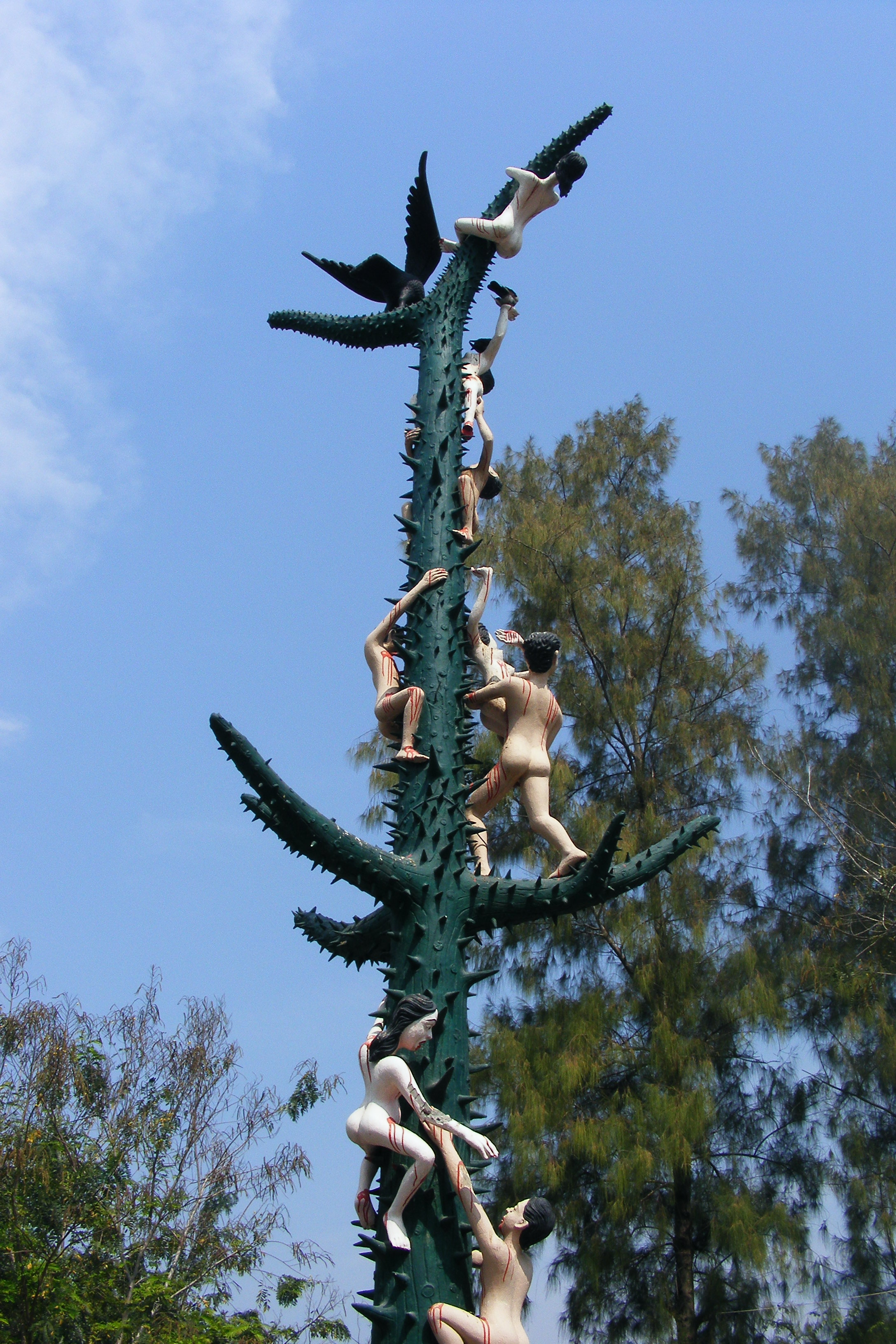 The buddhist hell display at WatpaiRongwuo.